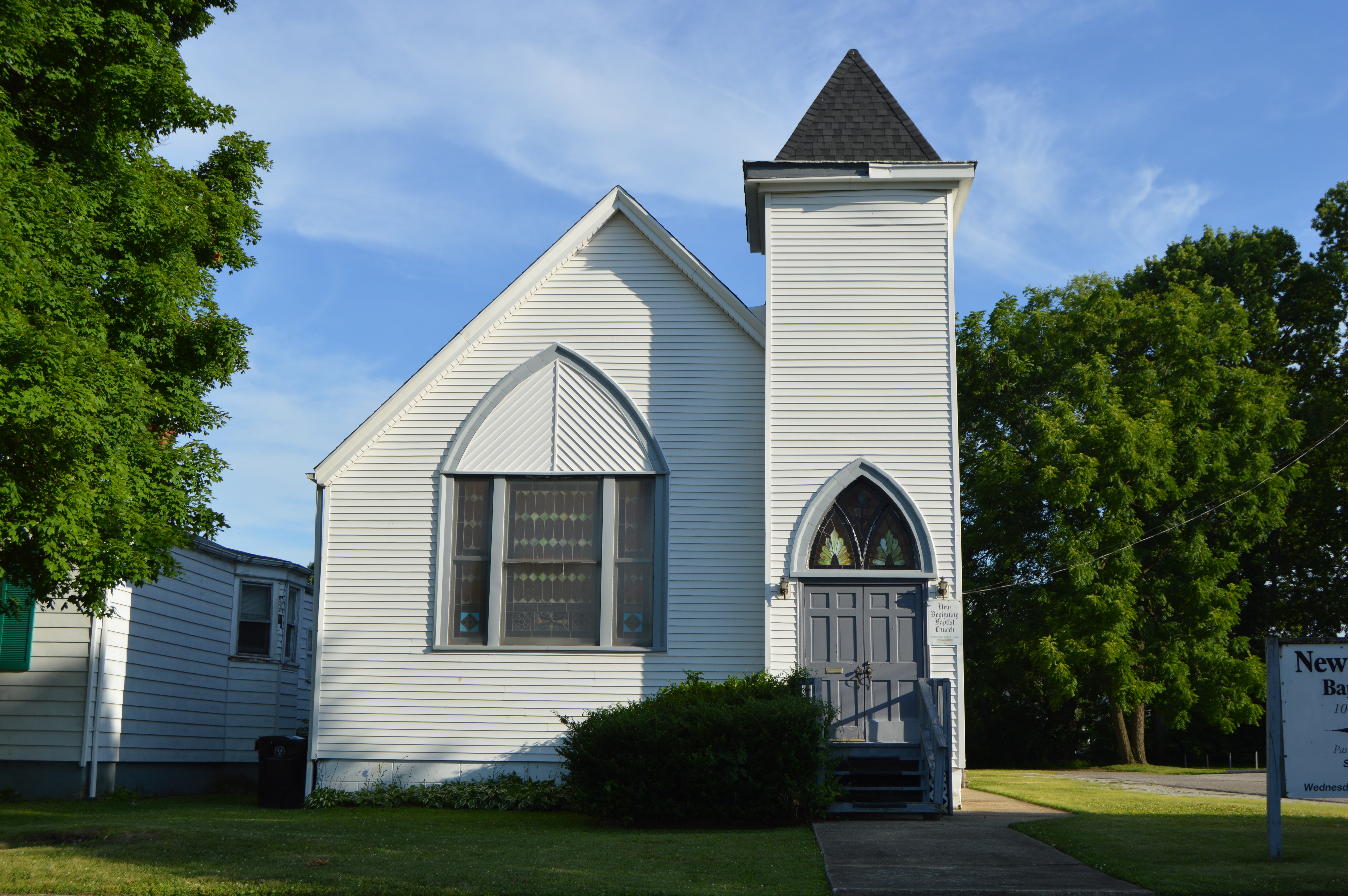 Front of the former South Louisville Reformed Church (now New Beginning Baptist Church; the original occupants are now Lynnhurst United Church of Christ), located at 1060 Lynnhurst Avenue in Louisville, Kentucky, United States. Built in 1908, it is listed on the National Register of Historic Places.